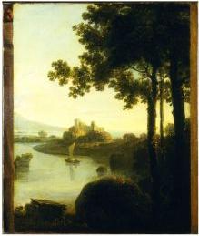 Object Type - Paintings of the Italian countryside became popular with British travellers who associated them with the classical history and myths of their Latin school texts. Before the invention of photography, painting was a primary way of recording remains of the ancient world. Oil was a favoured and more durable medium than watercolour. People - Wilson was a Welsh painter who had studied in Italy. Dutch landscape painting, particularly the work of Aelbert Cuyp, also influenced him. Wilson's patrons were the wealthy elite who sent their sons on the Grand Tour. He had begun as a portraitist, but in about 1752 gave up portrait painting in favour of landscapes. He continued to paint landscapes in the Italian manner even after he returned to Britain. Wilson was a founder member of the Royal Academy and enjoyed considerable success until the early 1770s. Although his career then went into decline, his treatment of landscape strongly influenced the next generation of artists, particularly William Turner. Subject Depicted - There was a ready market for idealised Italianate landscapes which evoked not only memories of the glorious and fertile countryside but the sweet melancholy of the classical ruins, half sunk into the earth. This idealised classical treatment of the Italian countryside was eventually applied to scenes in Britain as well. In this picture Wilson has taken elements of the Welsh landscape, complete with imaginary castle, river mouth and trow (cargo boat) and mingled them in a pleasant fantasy which the Italians would have called a 'capriccio'.